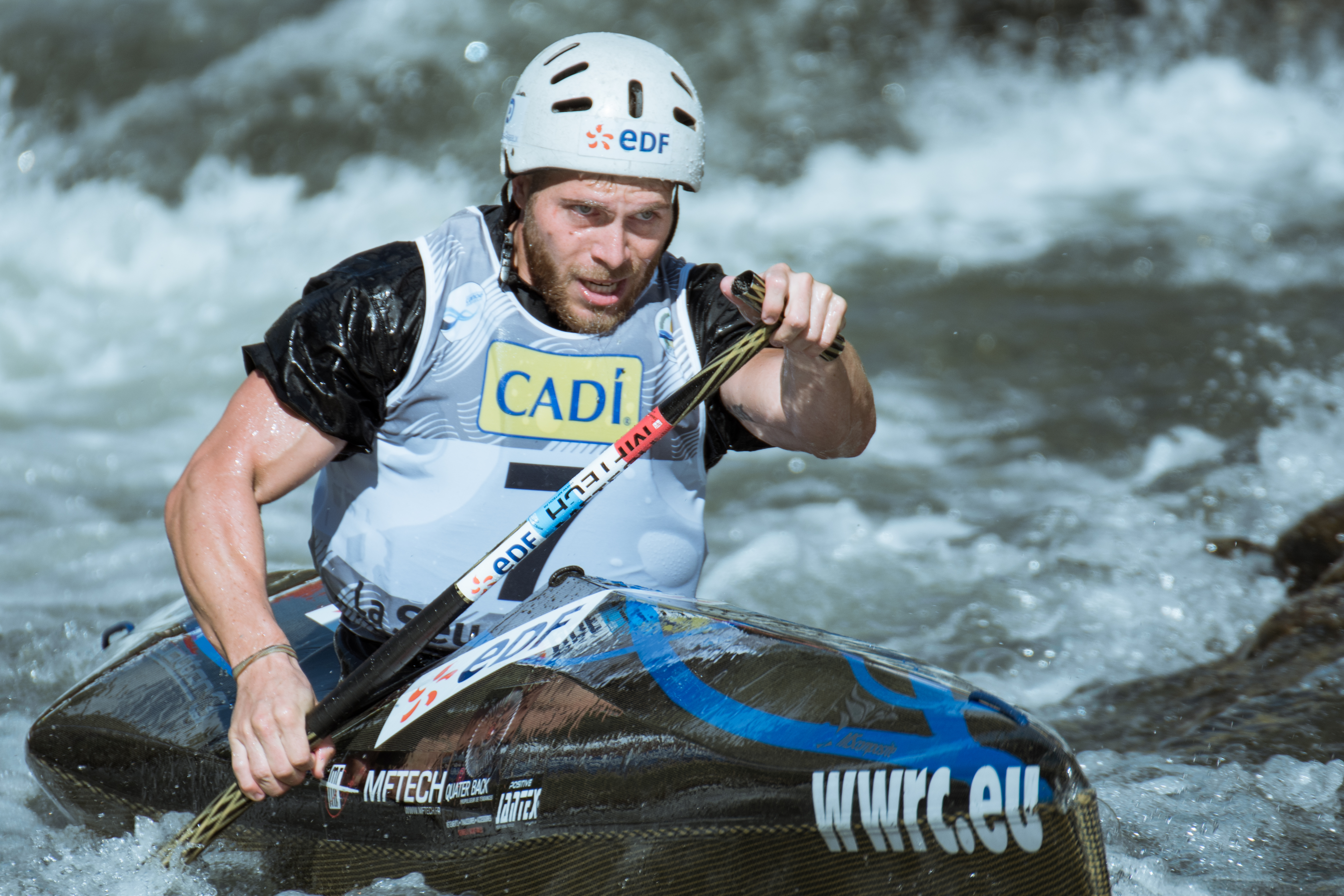 Tony Debray during the 2019 Canoe Wildwater World Championships in La Seu d'Urgell, Spain.